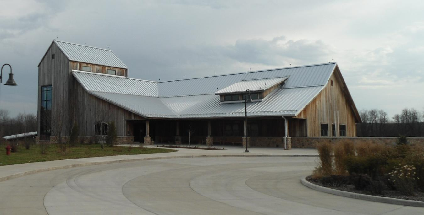 New Visitors Center